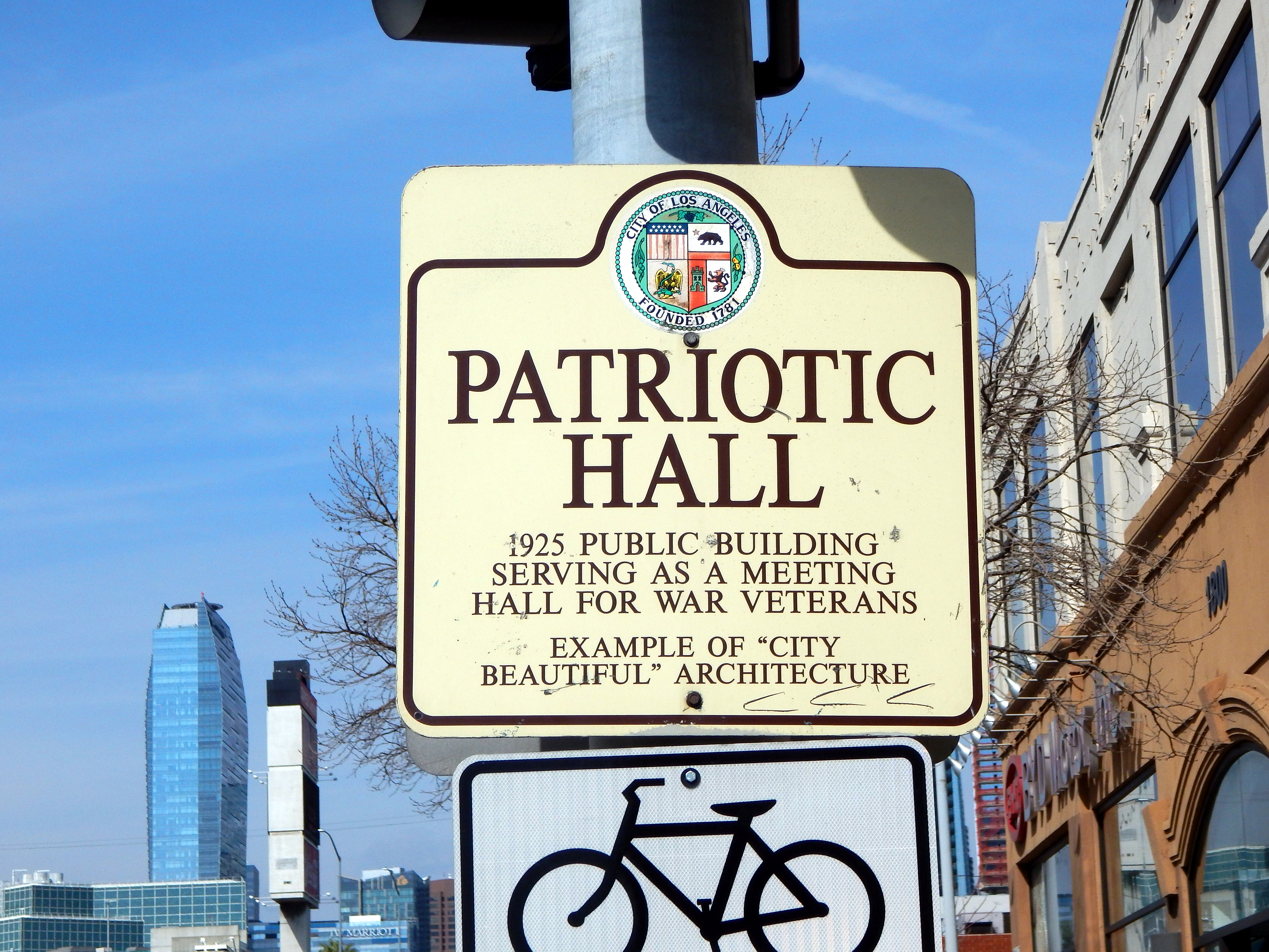 city sign marking Bob Hope Patriotic Hall, 1816 South Figueroa Street, Los Angeles, California, USA